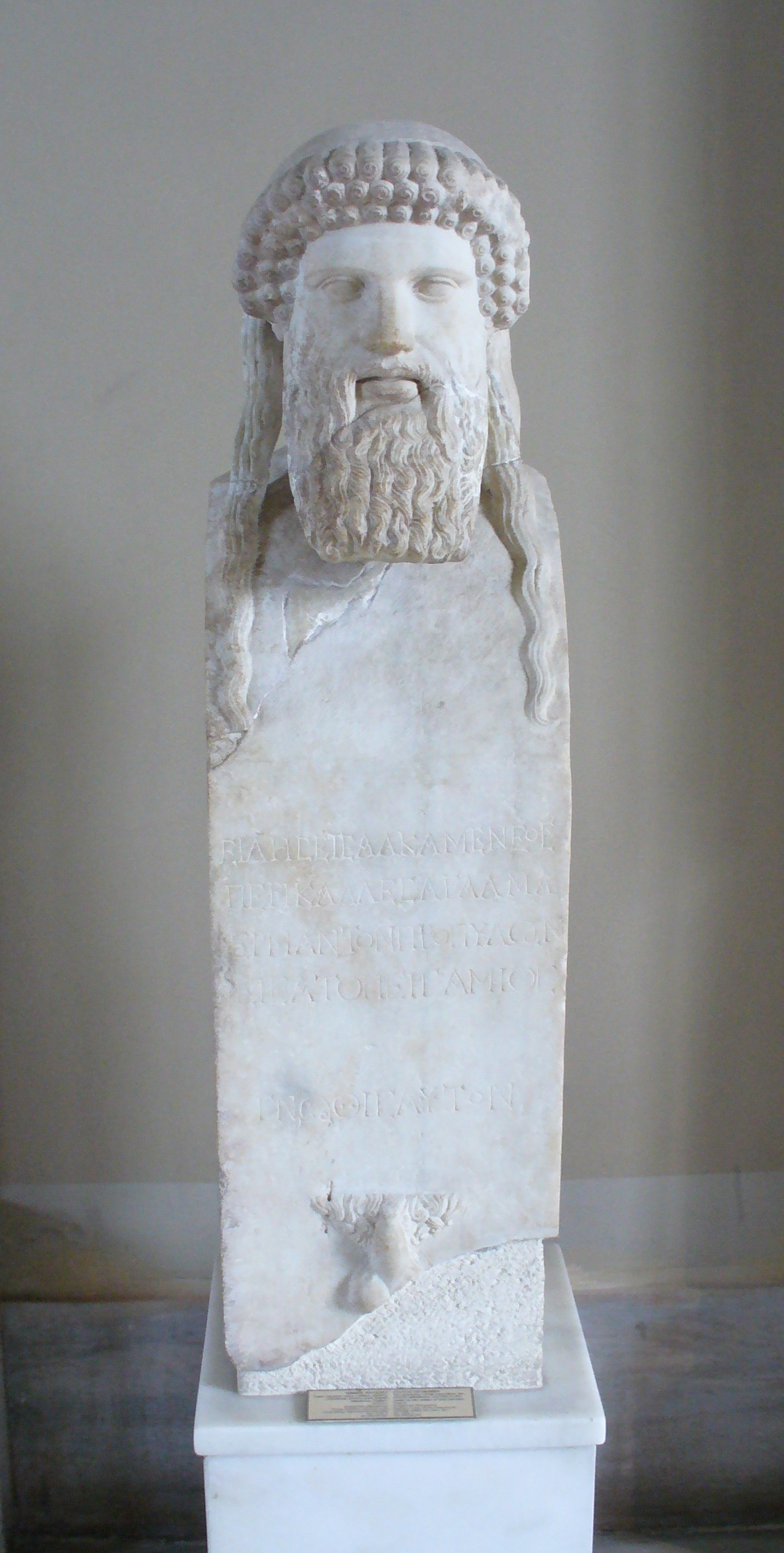 Herm with an inscription linking it to the Hermes Propylaios by Alcamenes; the head may not belong to the inscribed shaft (Francis).